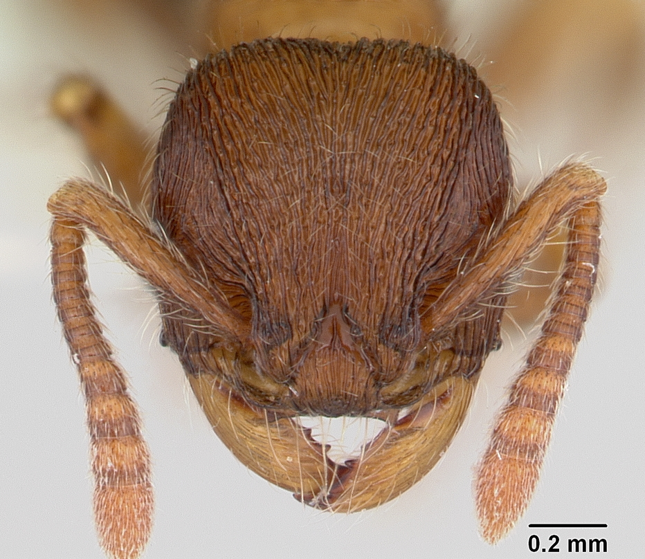 Head view of ant Hylomyrma reitteri specimen casent0173969.